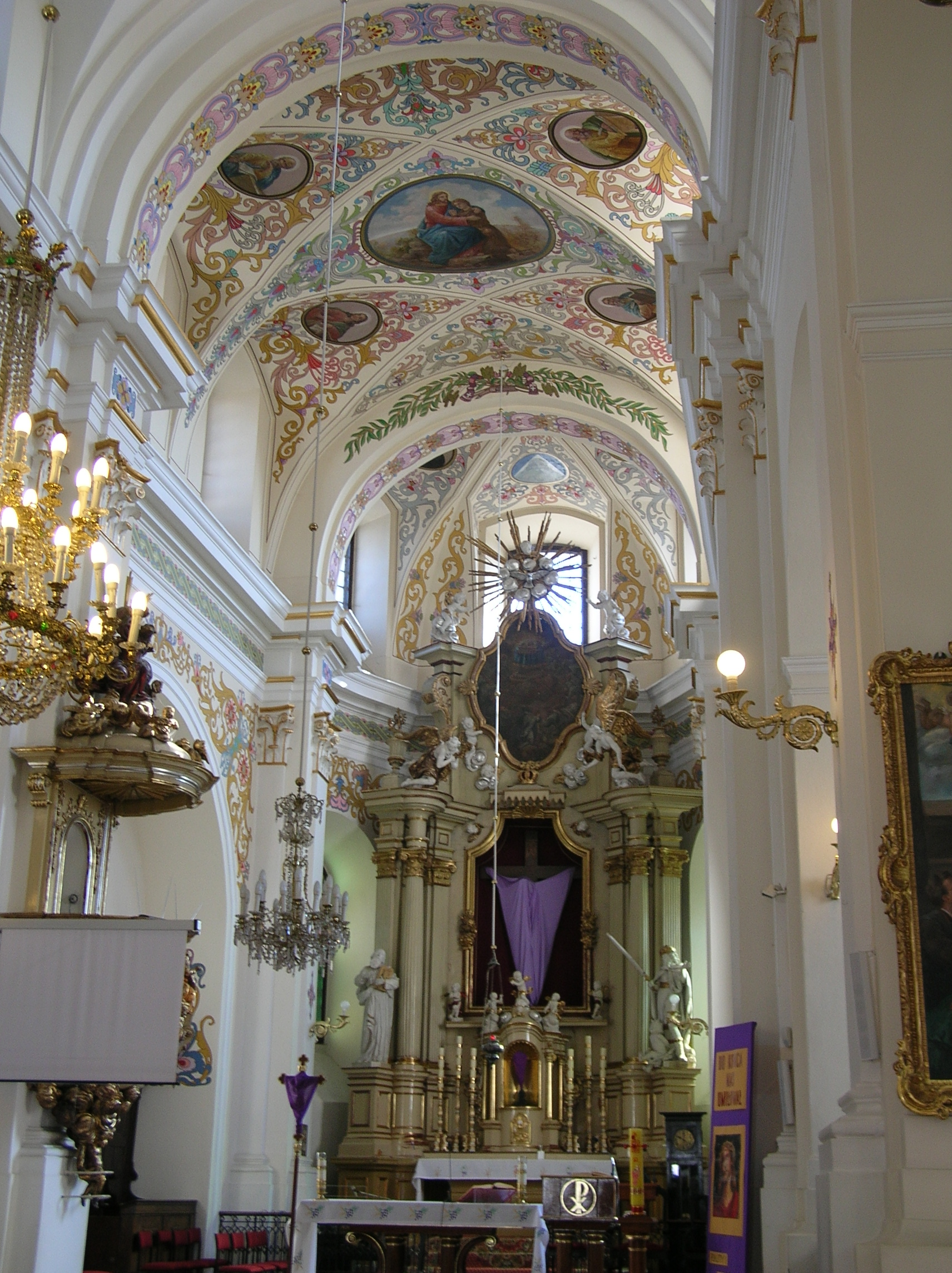 Interior of the church in Końskowola